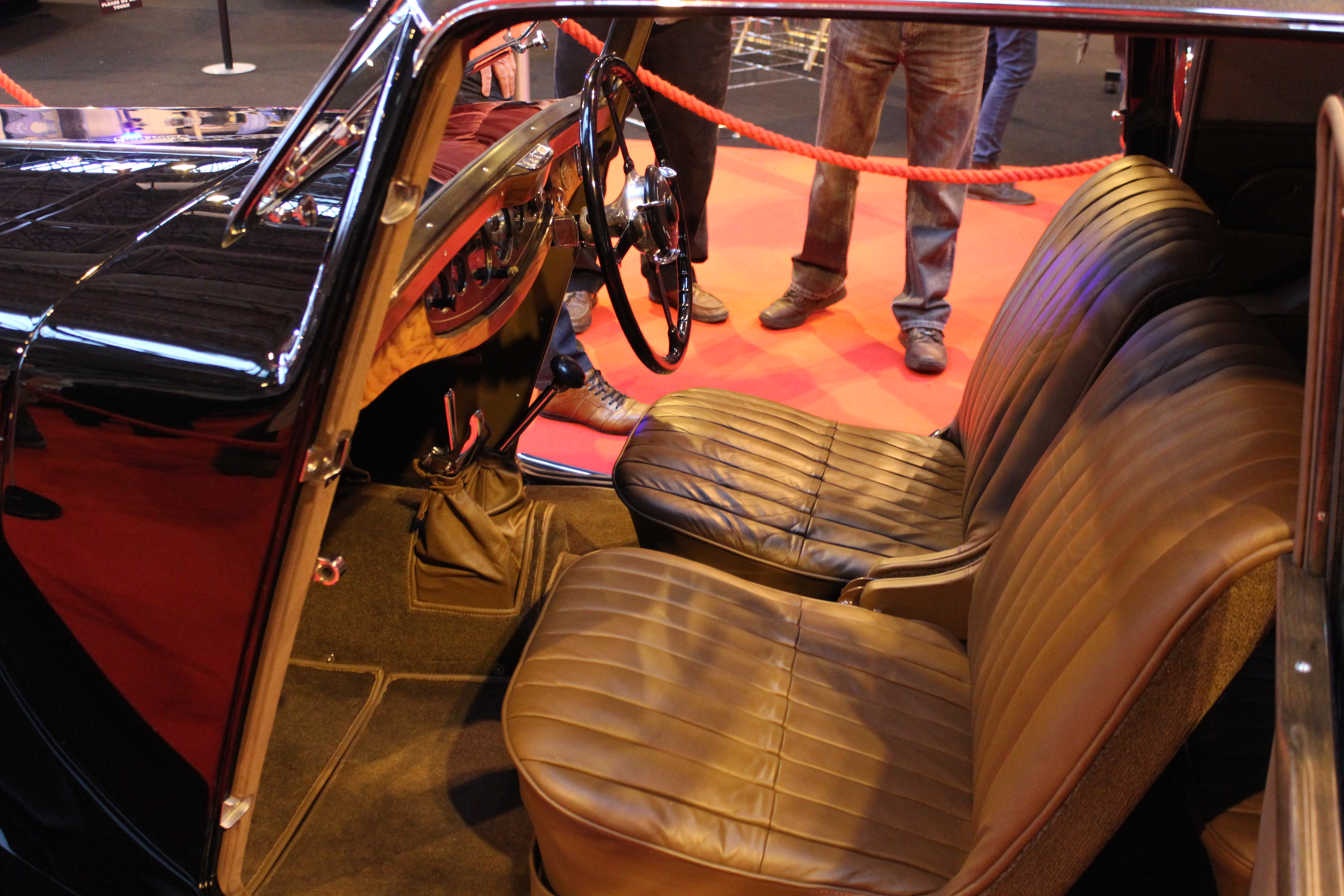 1933 SS One 16 HP fixed head coupé interior Birmingham NEC classic car show 2014